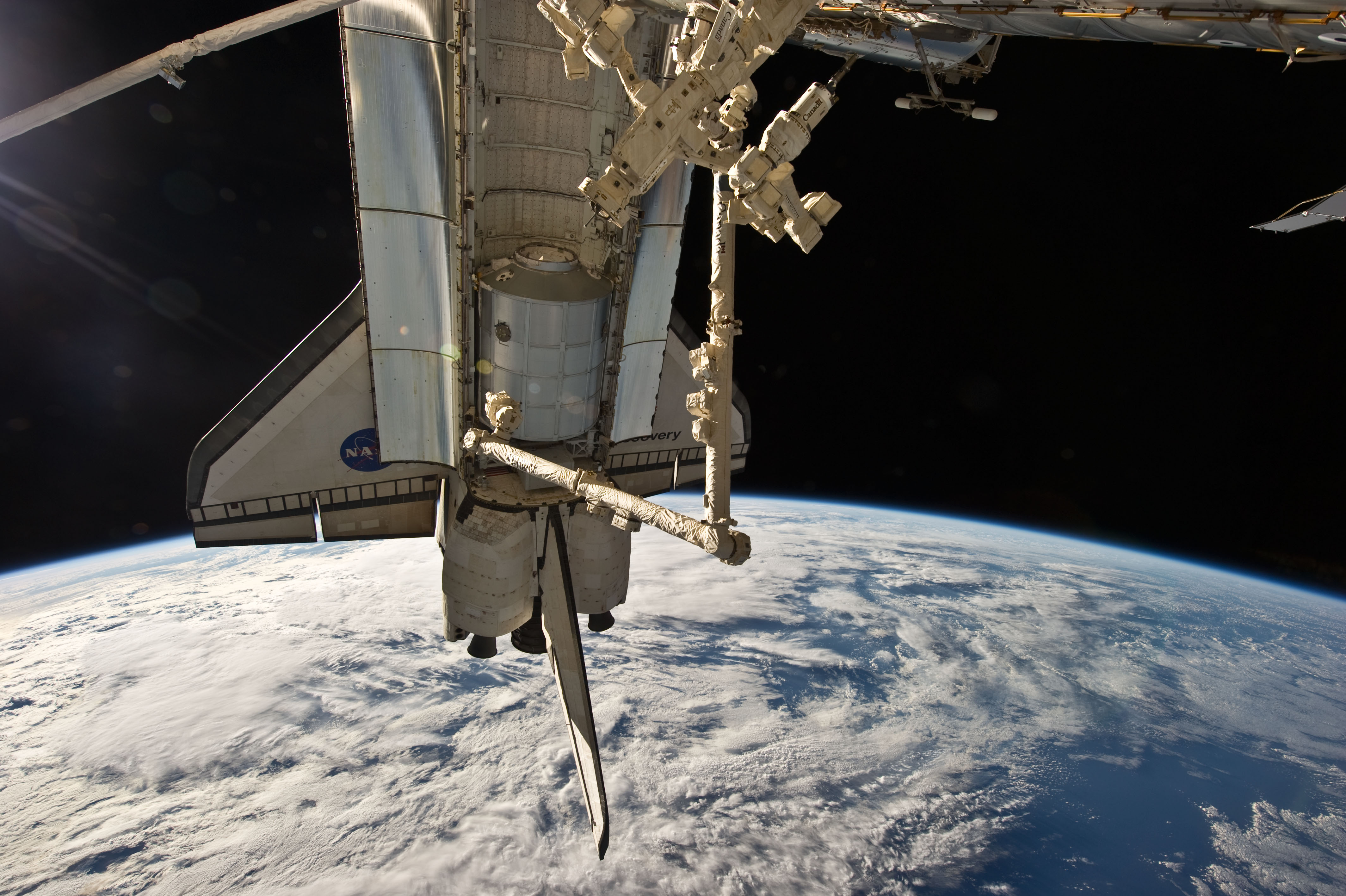 The station's robotic Canadarm2 grapples the Leonardo Multi-purpose Logistics Module (MPLM) from the payload bay of the docked space shuttle Discovery (STS-131) for relocation to a port on the Harmony node of the International Space Station. Earth's horizon and the blackness of space provide the backdrop for the scene.